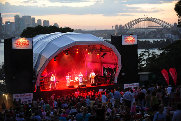 Bjorn Again performing at one of their 3 sellout shows at The Taronga Zoo Sydney February 2009